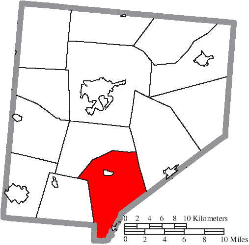 Map of the municipal and township boundaries of Clinton County, Ohio, United States, as of the 2000 census, with the location of Clark Township highlighted. Township borders are shown only in unincorporated areas in order to differentiate incorporated and unincorporated areas more clearly.